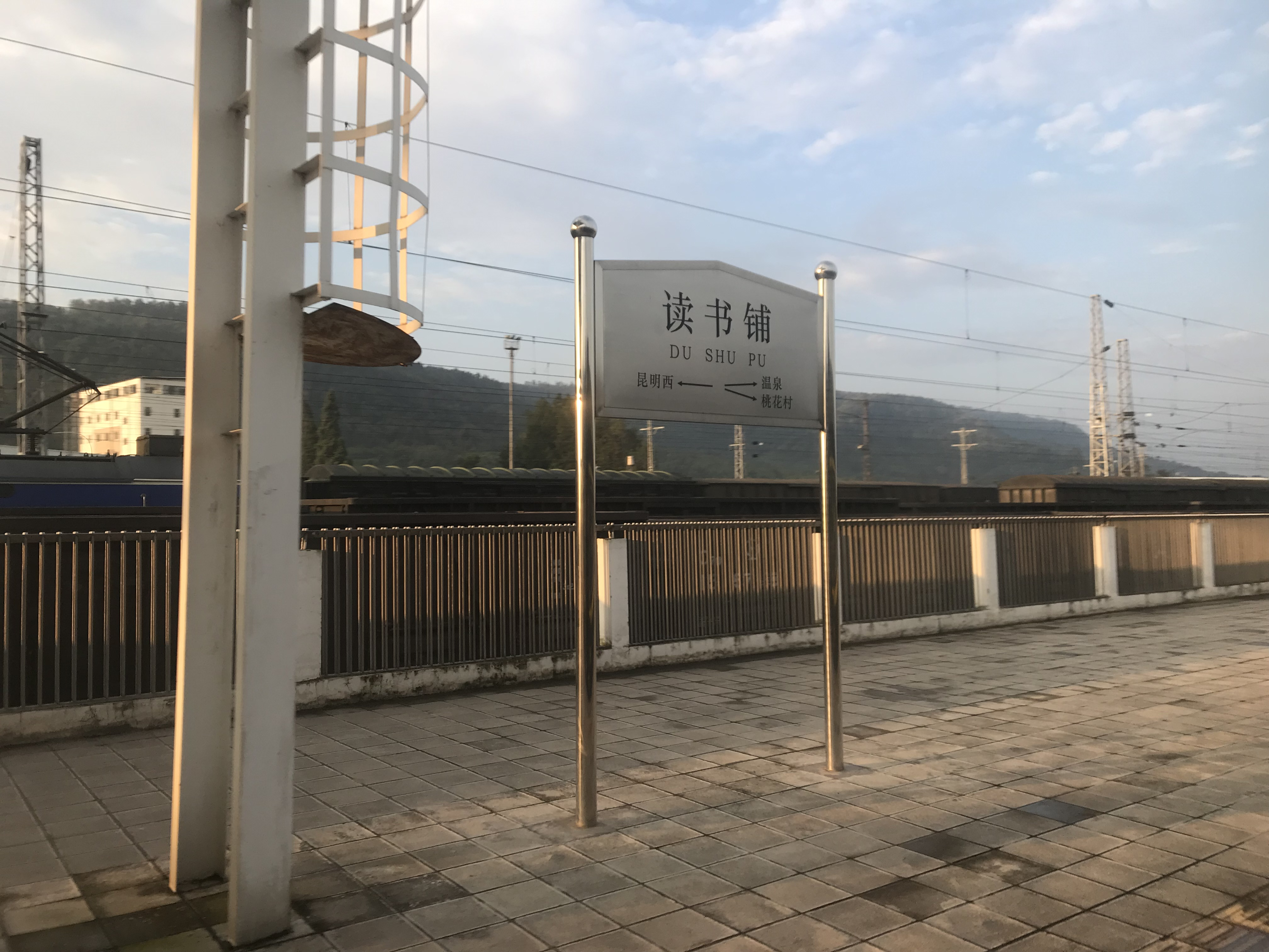 Next station, Onsen